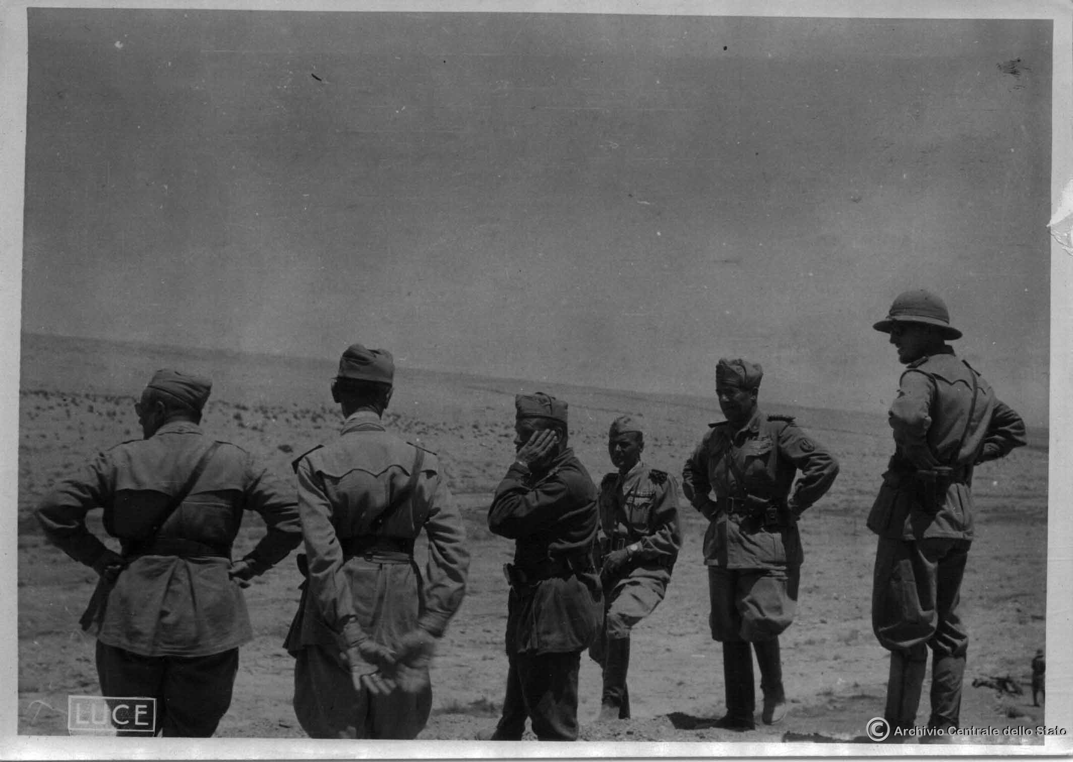 Italian officers surveying the scene at El Alamein.